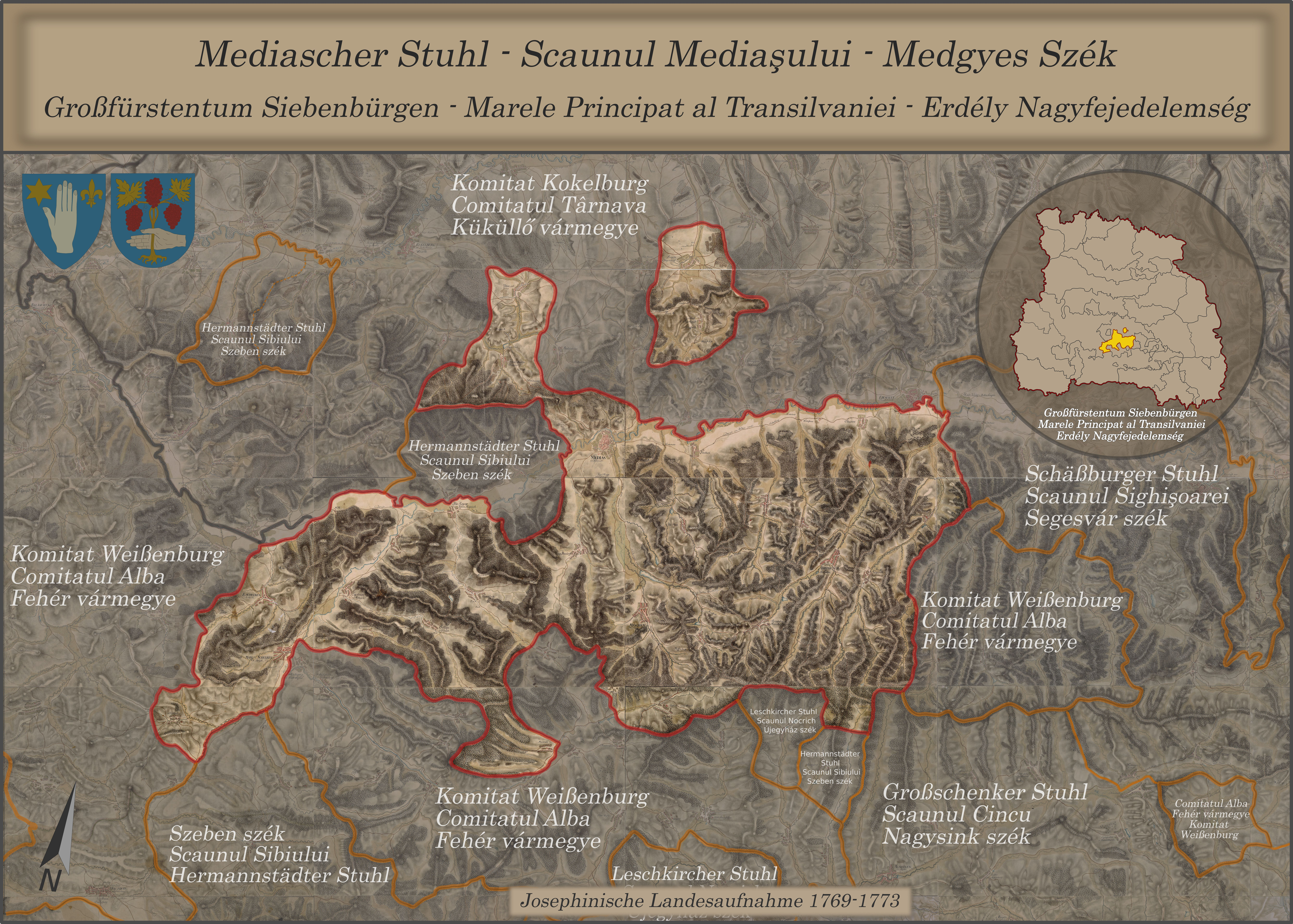 Mediascher Stuhl (former Zwei Stühle); composed from maps of the Josephinische Landesaufnahme, 1769-1773